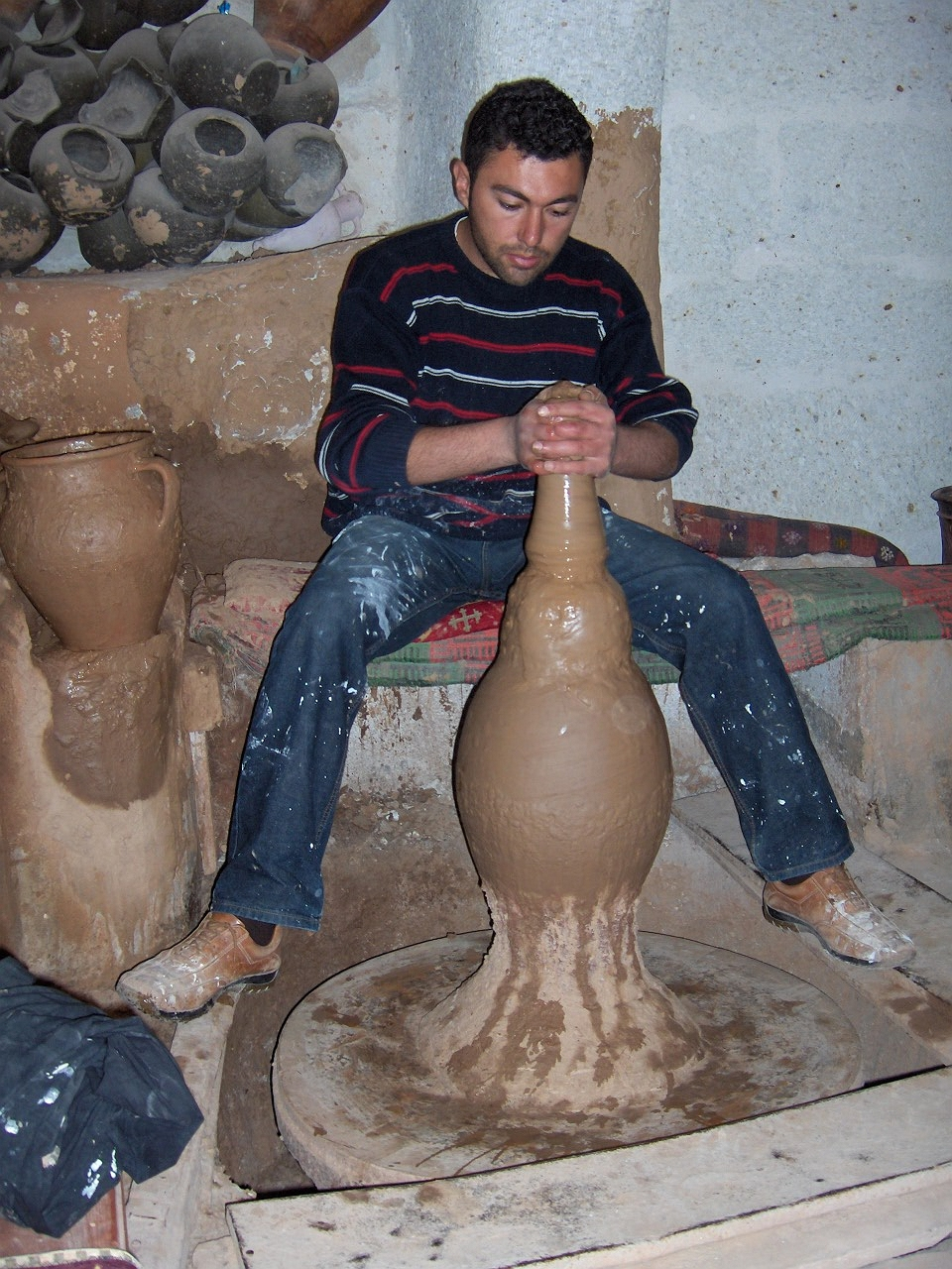 At the potter's kick wheel; pottery factory, Gülşehir, Cappadocia, Turkey